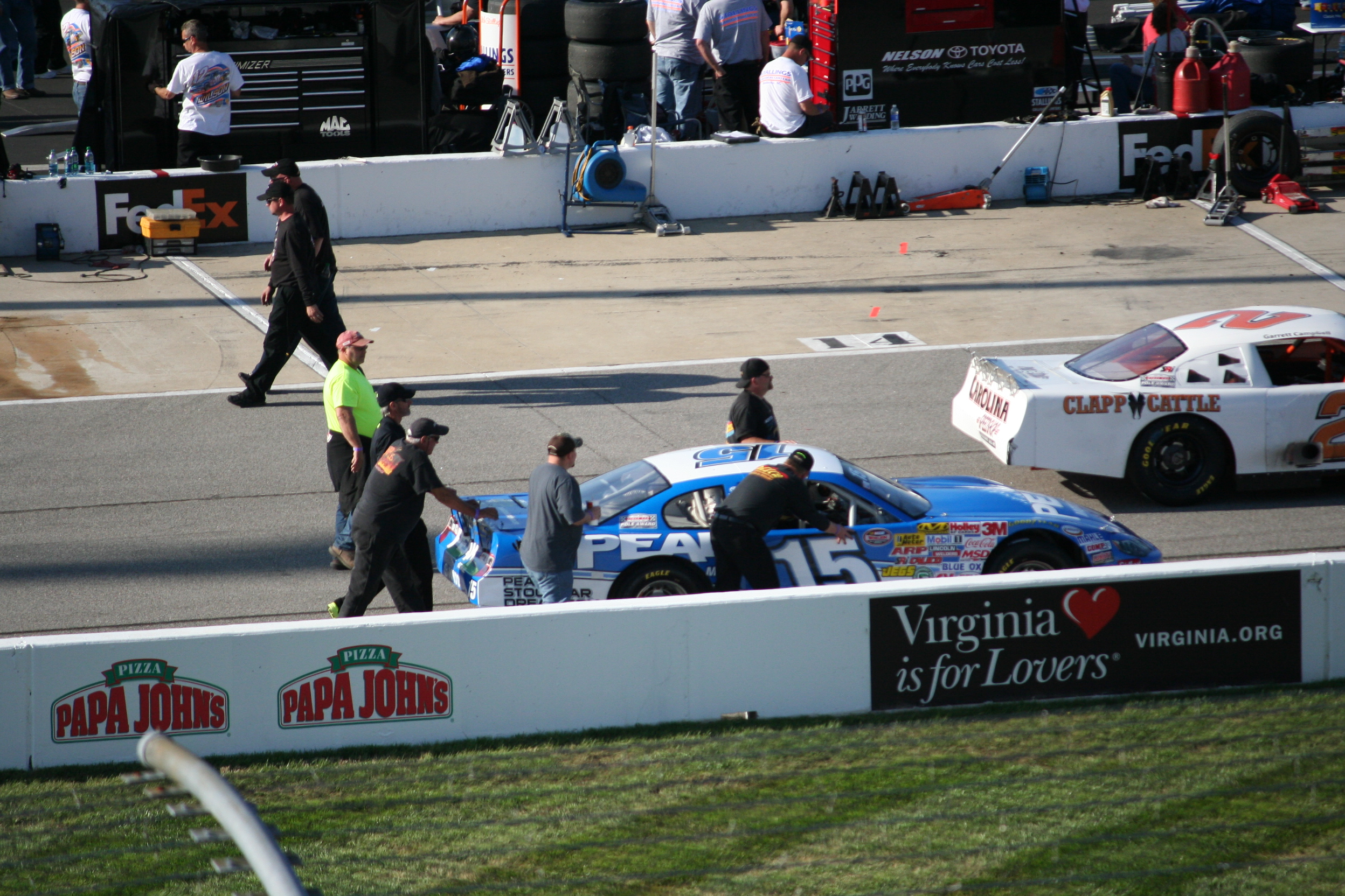 Michael Waltrip's No. 15 Peak Antifreeze Toyota is pushed past the No. 2 Ford of Garrett Campbell on pit road at Richmond International Raceway before the Denny Hamlin Short Track Showdown, April 25 2013.